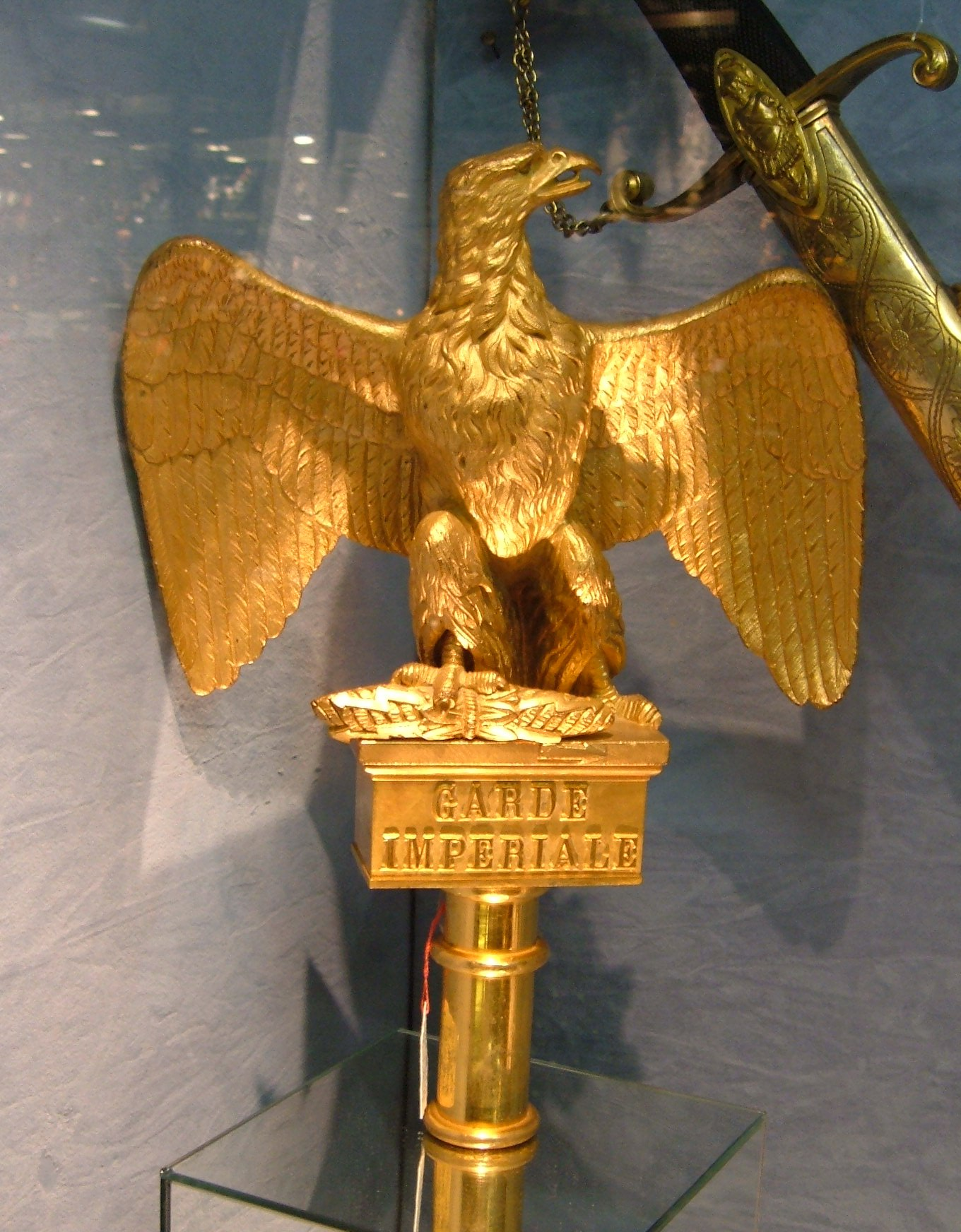 An Eagle of the Imperial Guard on display at the Louvre des Antiquaires in Paris, France.